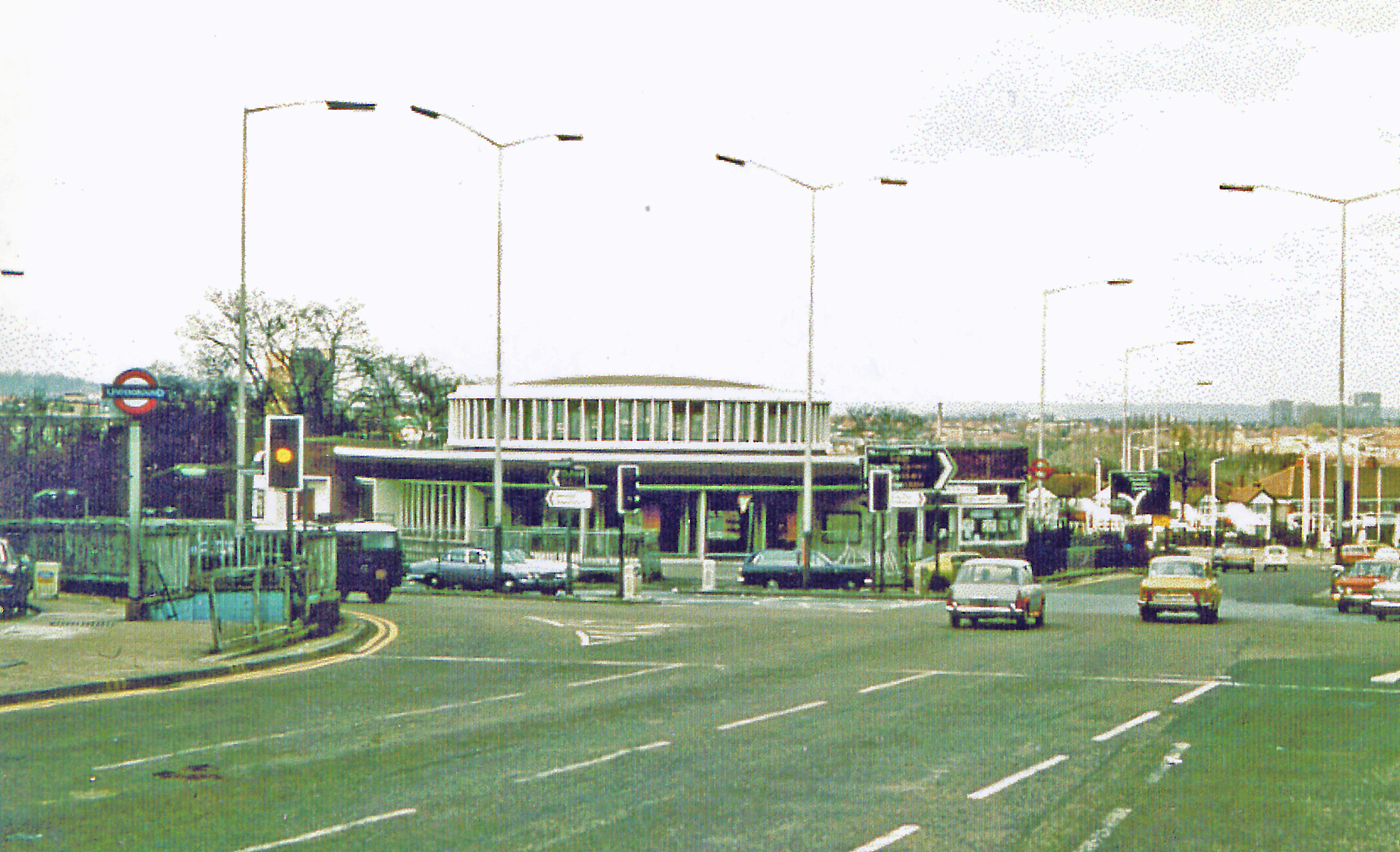 Hanger Lane station and intersection, 1978. View northward on Hanger Lane (A406, North Circular Road) at junction with A40 (Western Avenue) - before the Gyratory System was constructed. On the NW side is Hanger Lane station on the London Underground Central Line to West Ruislip, dating from 30/6/47, which ran parallel on its Down (south) side to the North Acton - Greenford (NWLR) section of the main ex-GWR Paddington - Birmingham main line.